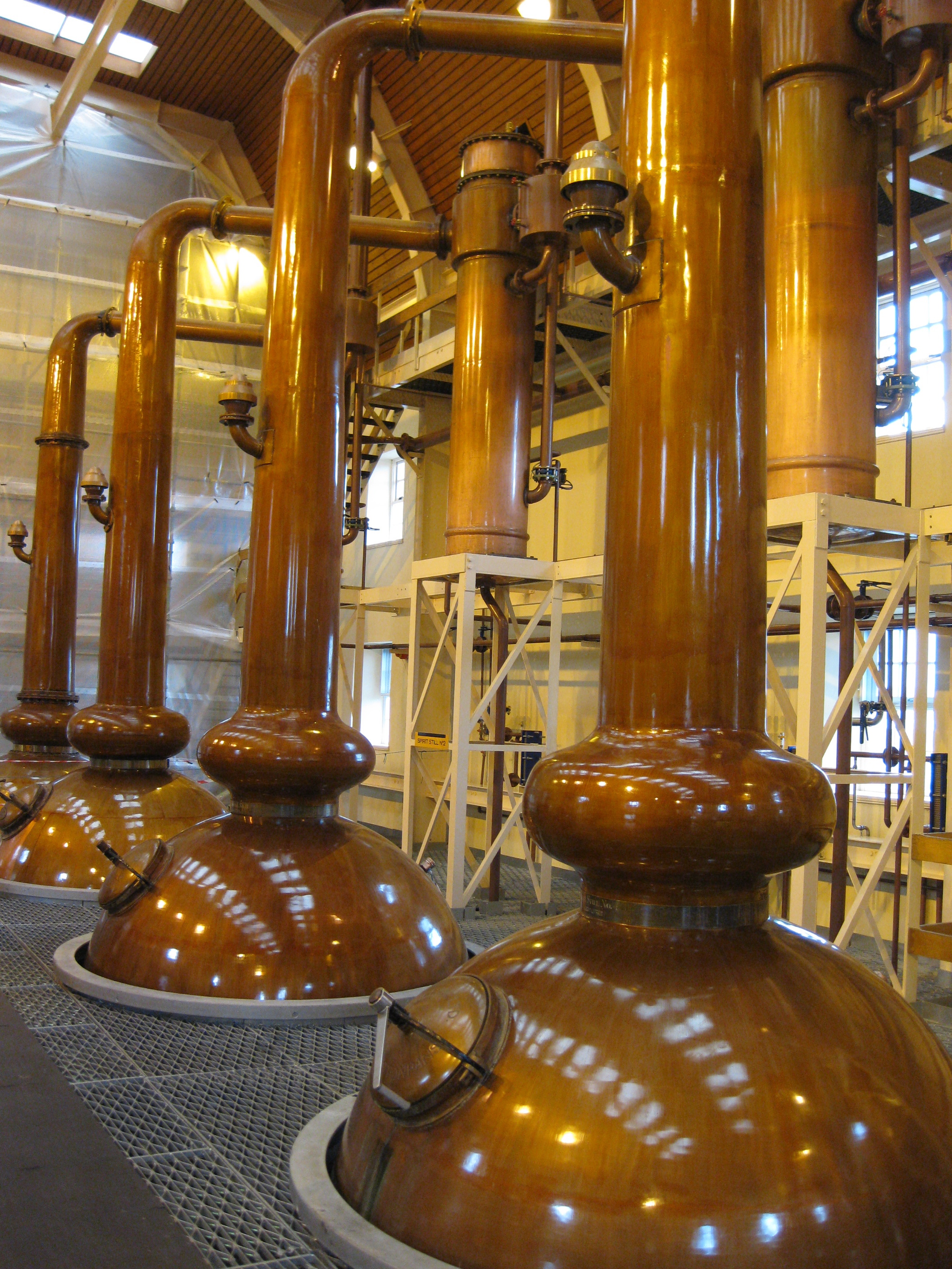 Glenmorangie distillery